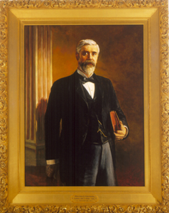 Portrait of Walter Q. Gresham